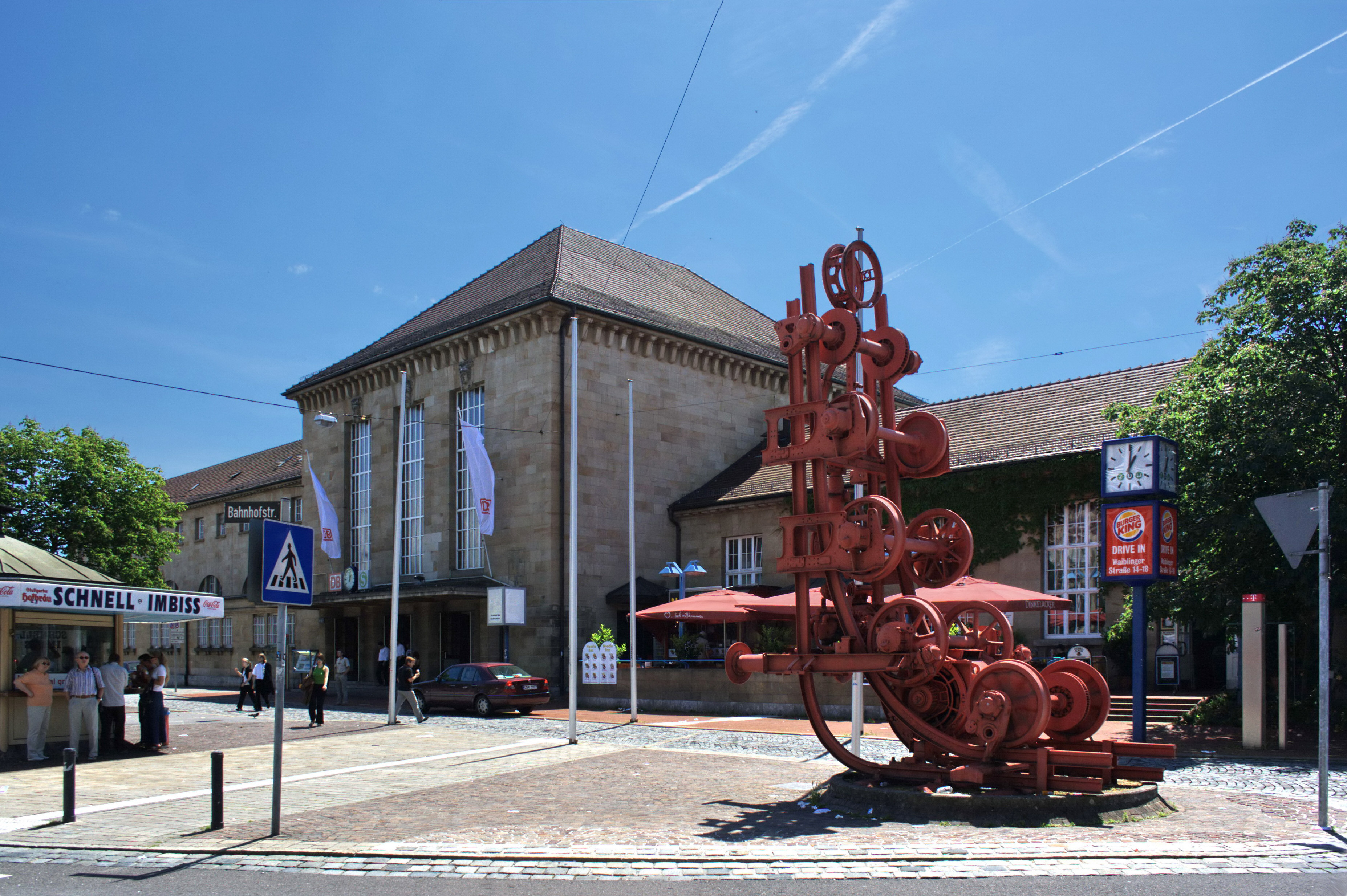 Train station of Bad Cannstatt (Stuttgart)